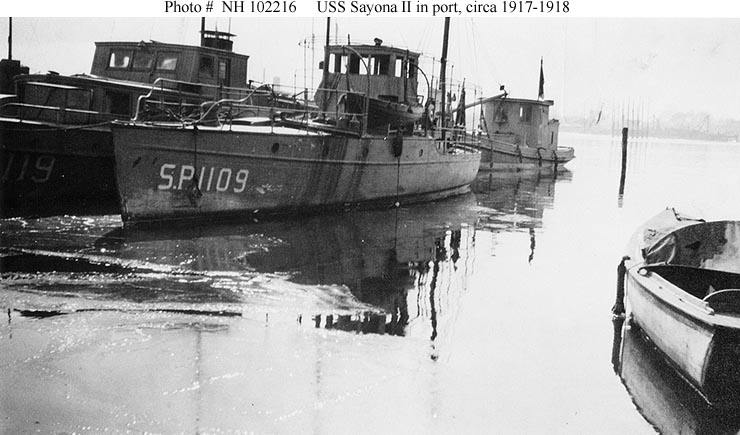 The United States Navy patrol vessel (center). The patrol vessel is at left.